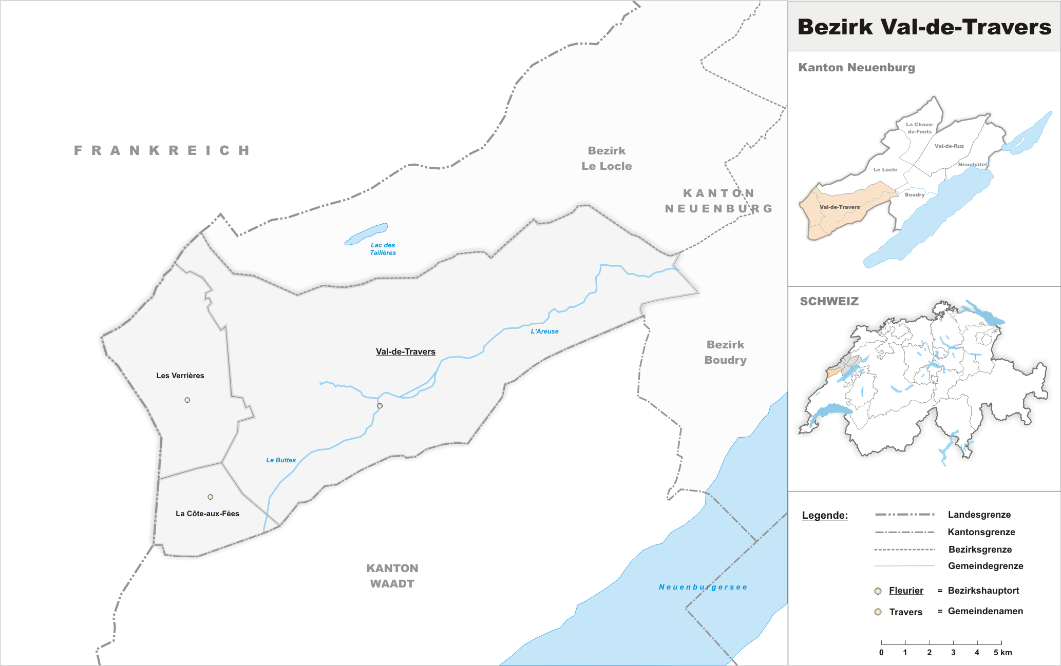 Municipalities in the district of Val-de-Travers ab 2009